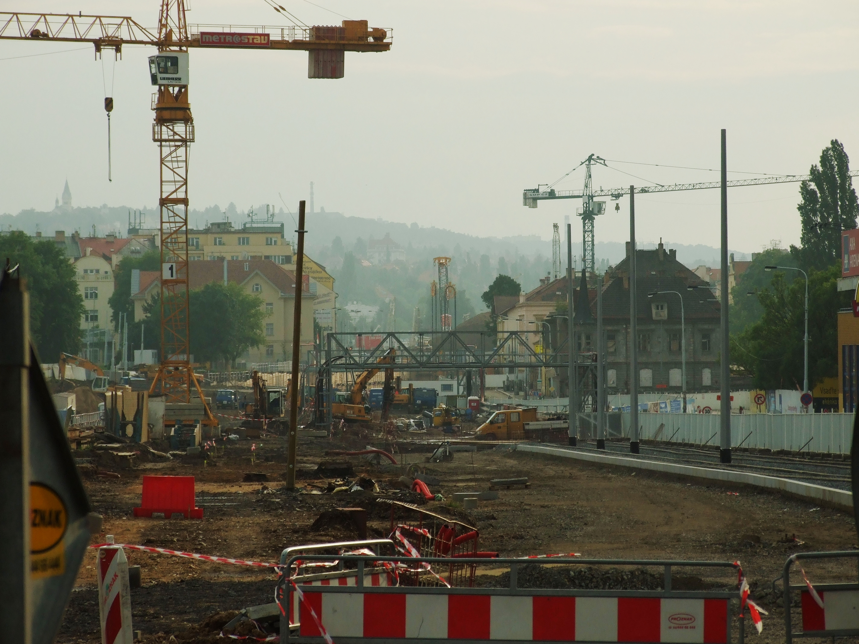 Construction site of Blanka Tunnel in Prague-Letná, Prague, CZhelp